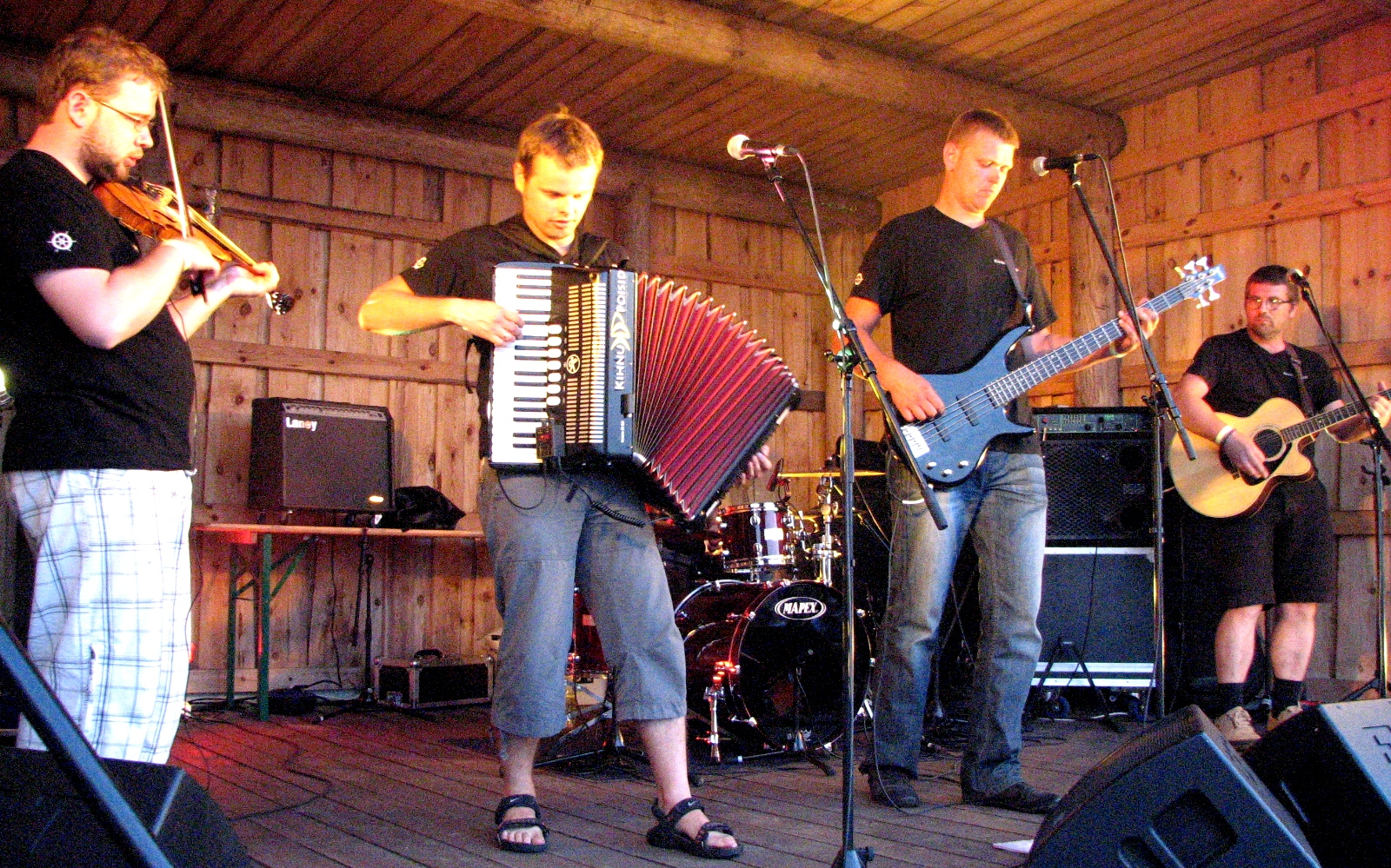 Estonian folk music group Kihnu Poisid performing in Õlletoober 2010